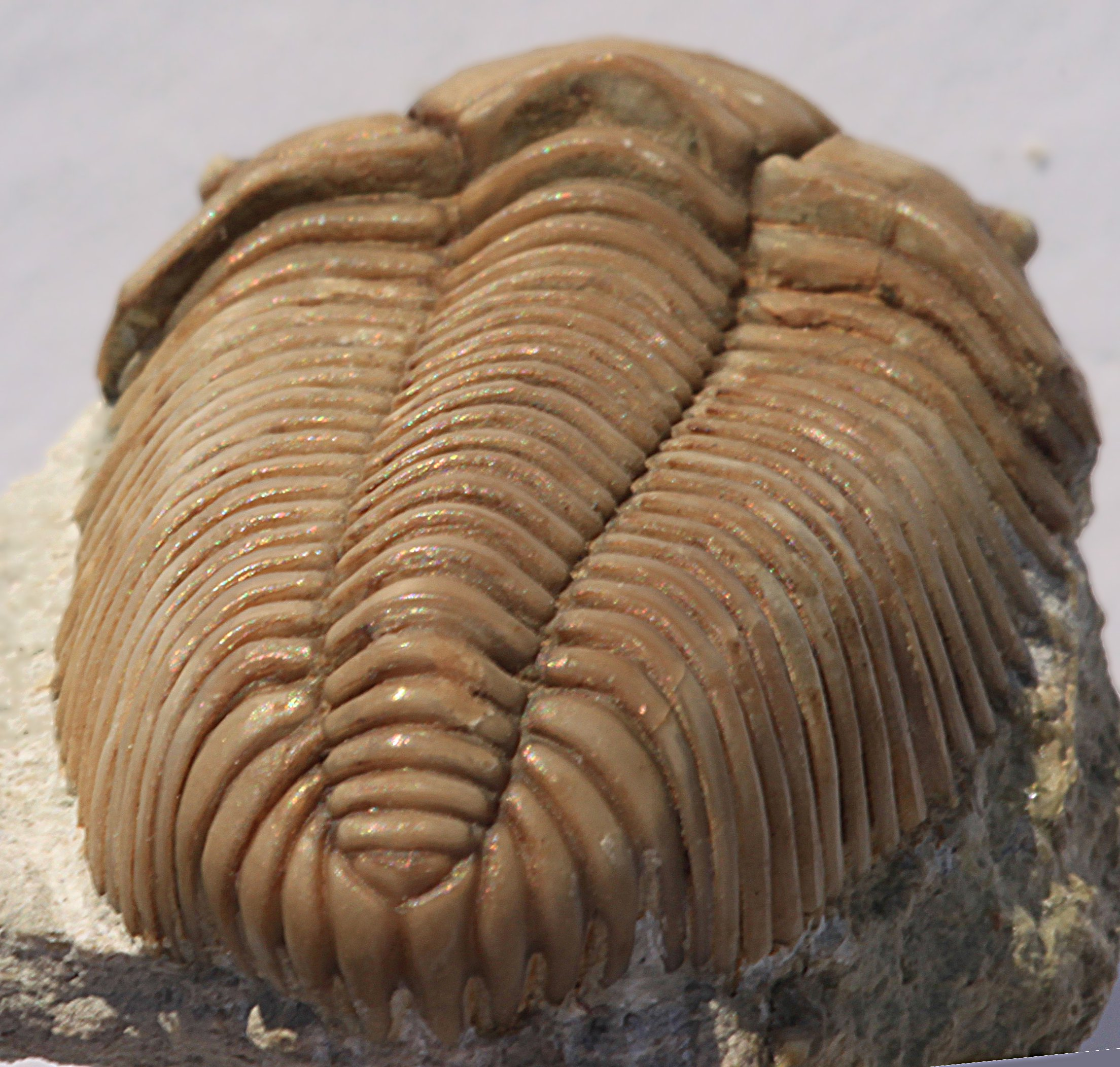 A Pliomera fischeri trilobite, Order Phacopida, Family Pliomeridae, 39mm along the axis, caudal view, collected in the Putilovo quarry near Petrograd, Russian Republic, from the Lower Ordovician